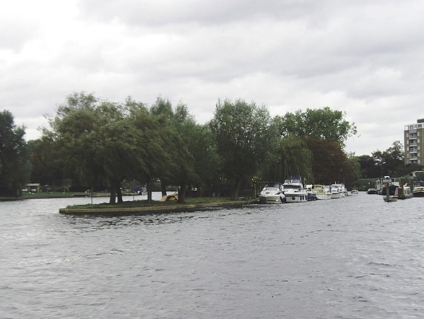 Steven's Eyot, Kingston Steven's Eyot is uninhabited, unconnected to the mainland and used for the mooring of boats.